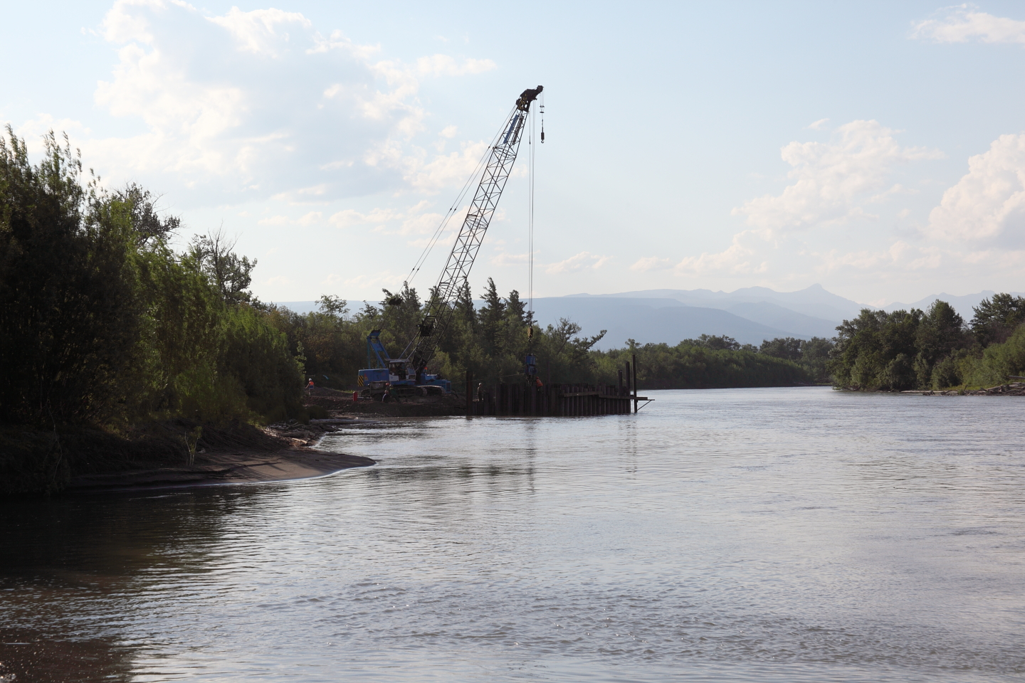 "We're waiting for the ferry, which is a tugboat and a barge, over the Kamchatka River. A new bridge across the river under construction."